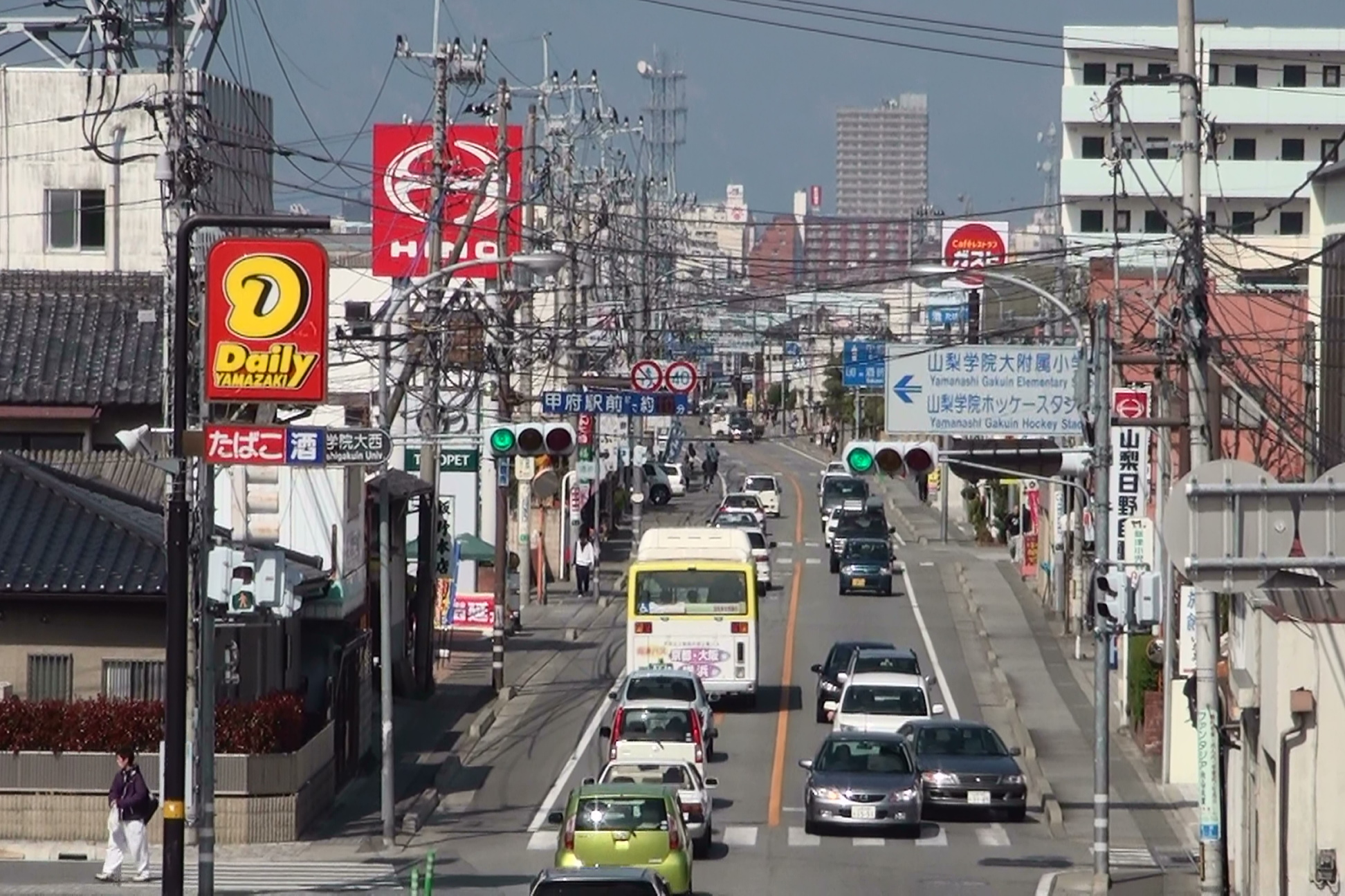 A view west than National road No. 411 at Sakaori district Kofu-city